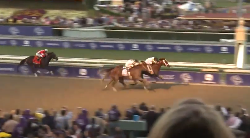 Screenshot (0:41/1:49) of the video Retour fracassant de Gary Stevens dans la Breeders' Cup Classic 2013 image shows Mucho Macho Man Winning, second is Will Take Charge, Declaration of War third, not visible between the first two horses, Fort Larned fourth